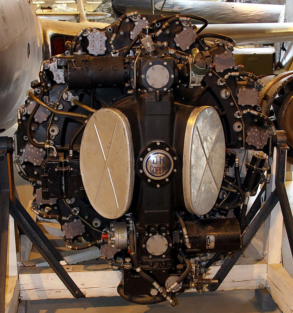 De Havilland Goblin 35 in Aviation Museum of Central Finland.